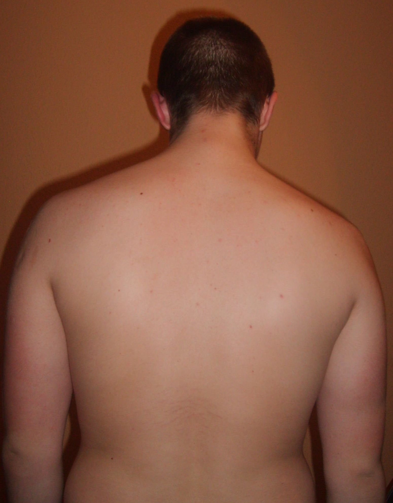 all